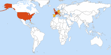 Aree di pubblicazione e diffusione delle opere di Paul Bairoch: Rosso, aree con maggior diffusione e pubblicazione Giallo, aree con minor diffusione e pubblicazione Bianco, aree in cui non vengono pubblicate